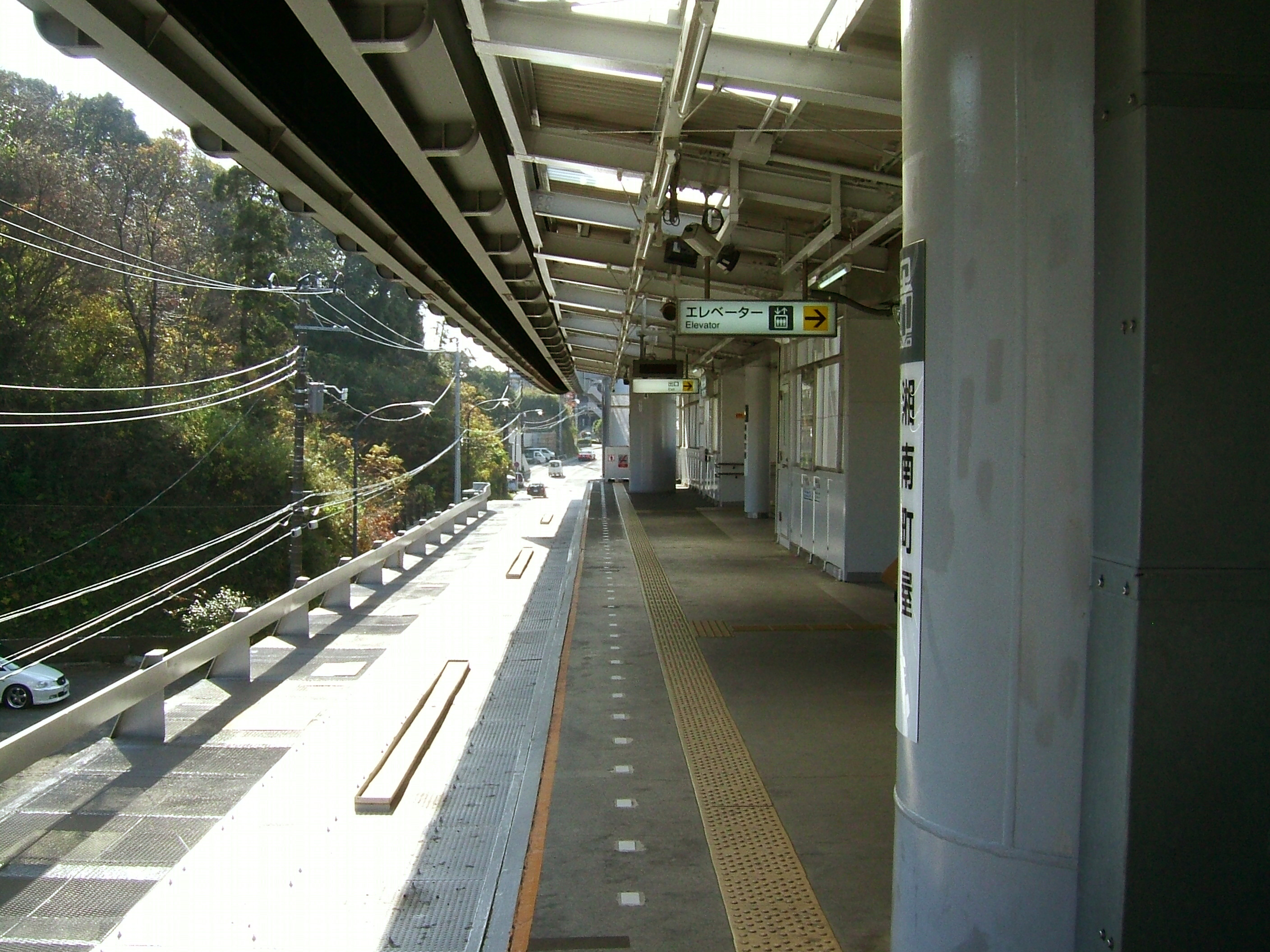 The platform at Shōnan-Machiya Station on the Shōnan Monorail Line in Kamakura city, Kanagawa prefecture, Japan